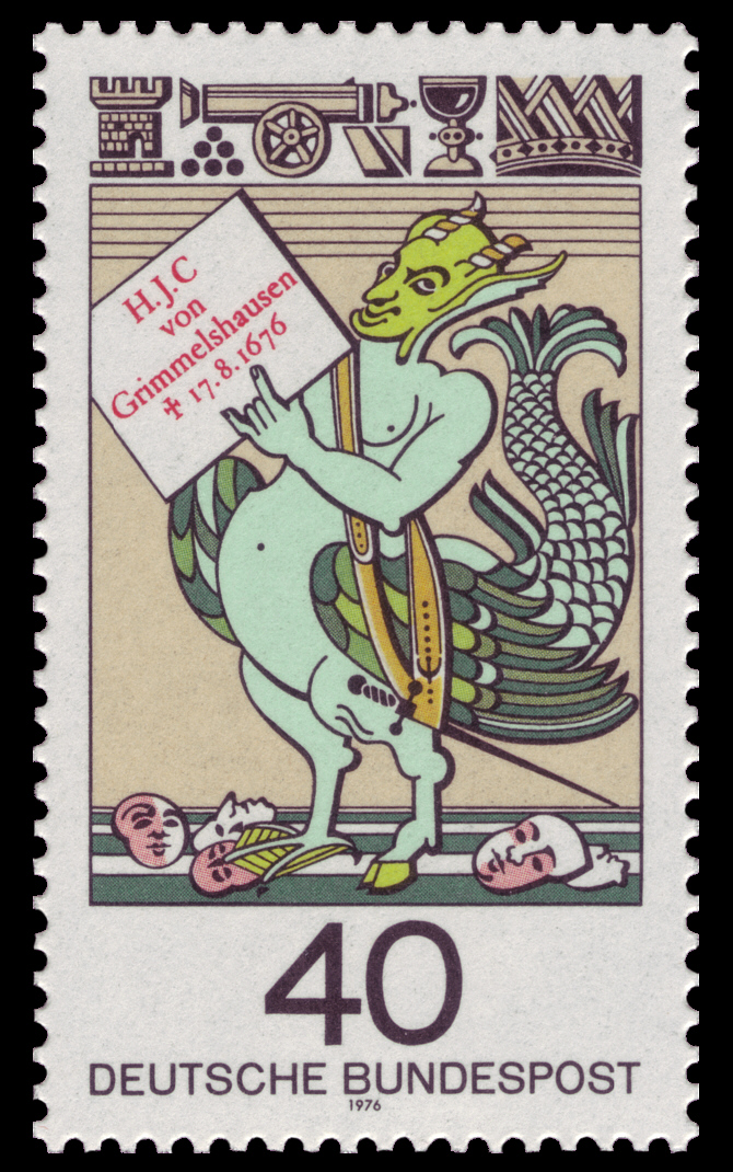 300th day of death of Hans Jacob Christoffel von Grimmelshausen (1622–1676) Ausgabepreis: 40 Pfennig First Day of Issue / Erstausgabetag: 17. August 1976 Michel-Katalog-Nr: 902 Graphic-Designer: Jacki